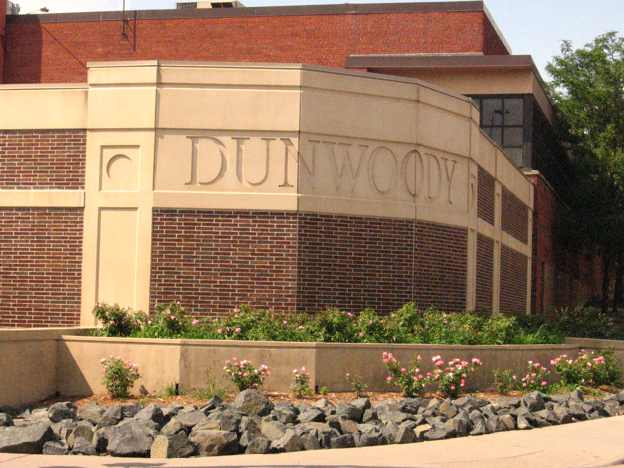 The Dunwoody College of Technology sign at their campus in Minneapolis, Minnesota. Photo taken July 2007 on behalf of Natalie Martin by Robert Francis.